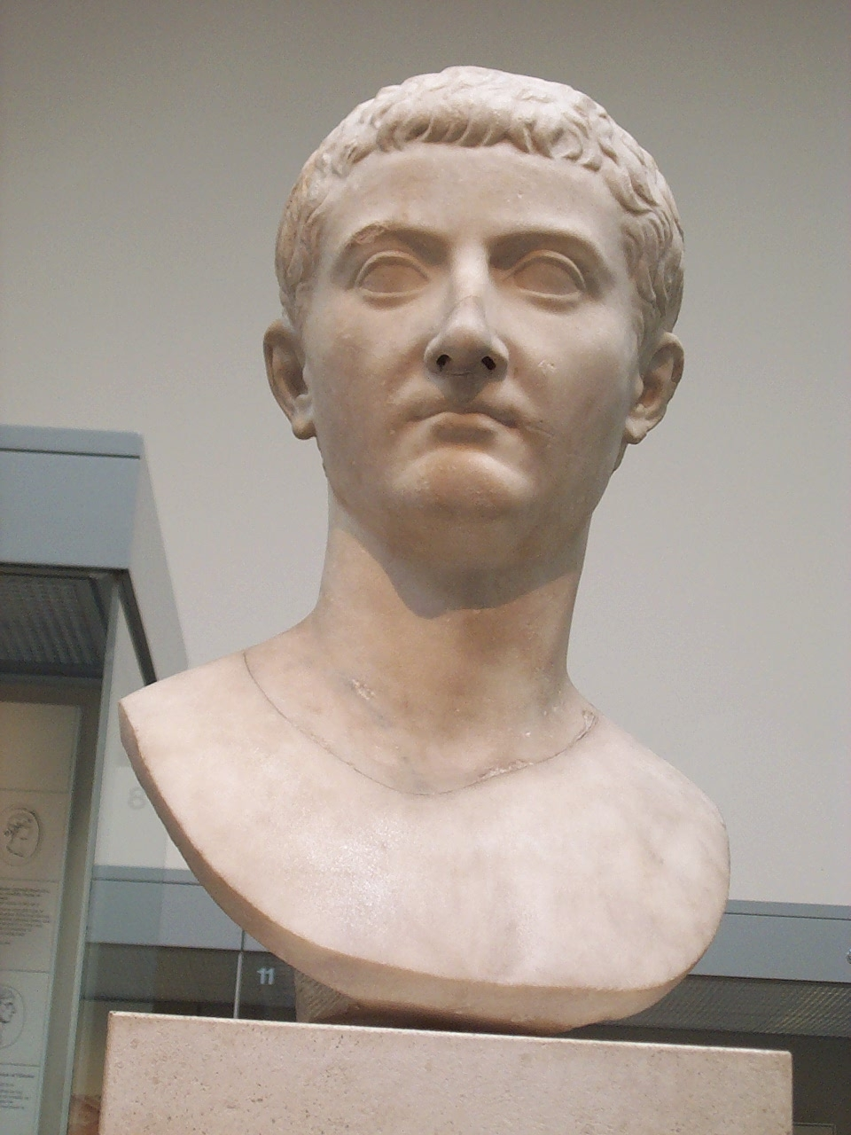 Tiberius Caesar, aged 46. Marble head made 4 AD - 14 AD, set in bust made 1880. On display in Roman section of the British Museum.